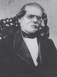 Portrait of Stamatios Kleanthis (1802-1862).